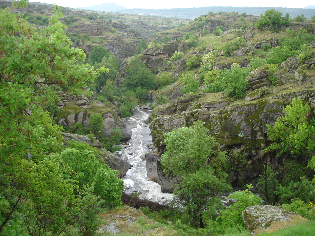 Gradeshka river in Mariovo, Macedonia